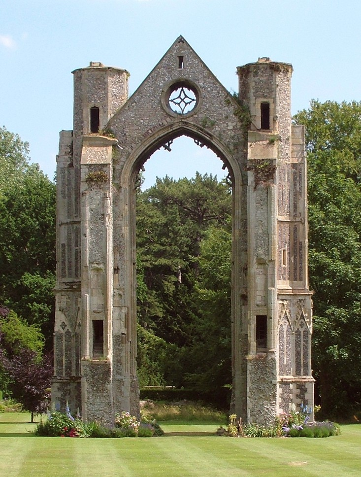 Walsingham Abbey Remains